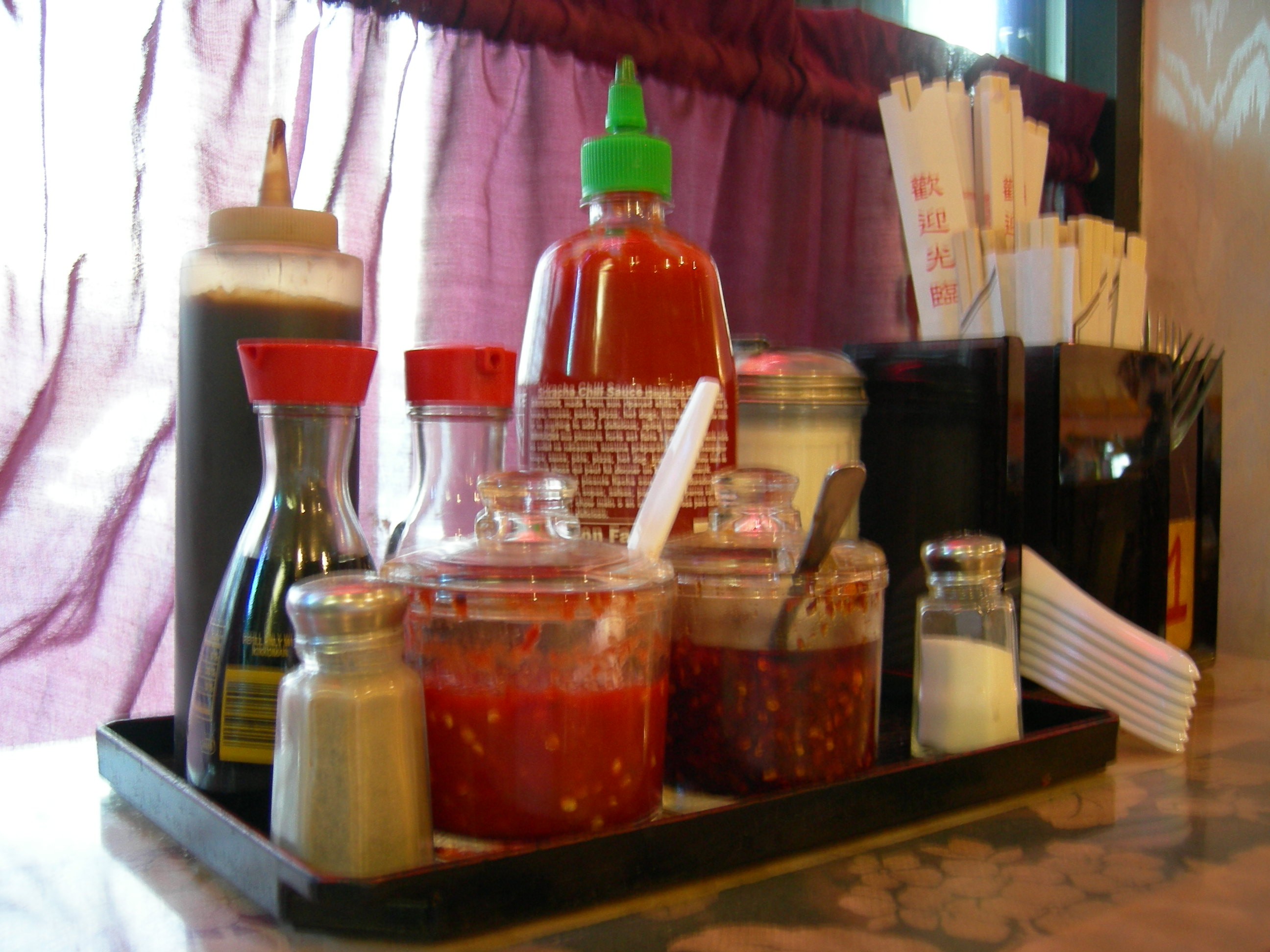 Condiments, Thanh Vi Vietnamese Restaurant, Asian Plaza shopping center, Little Saigon (12th & Jackson), International District, Seattle, Washington.